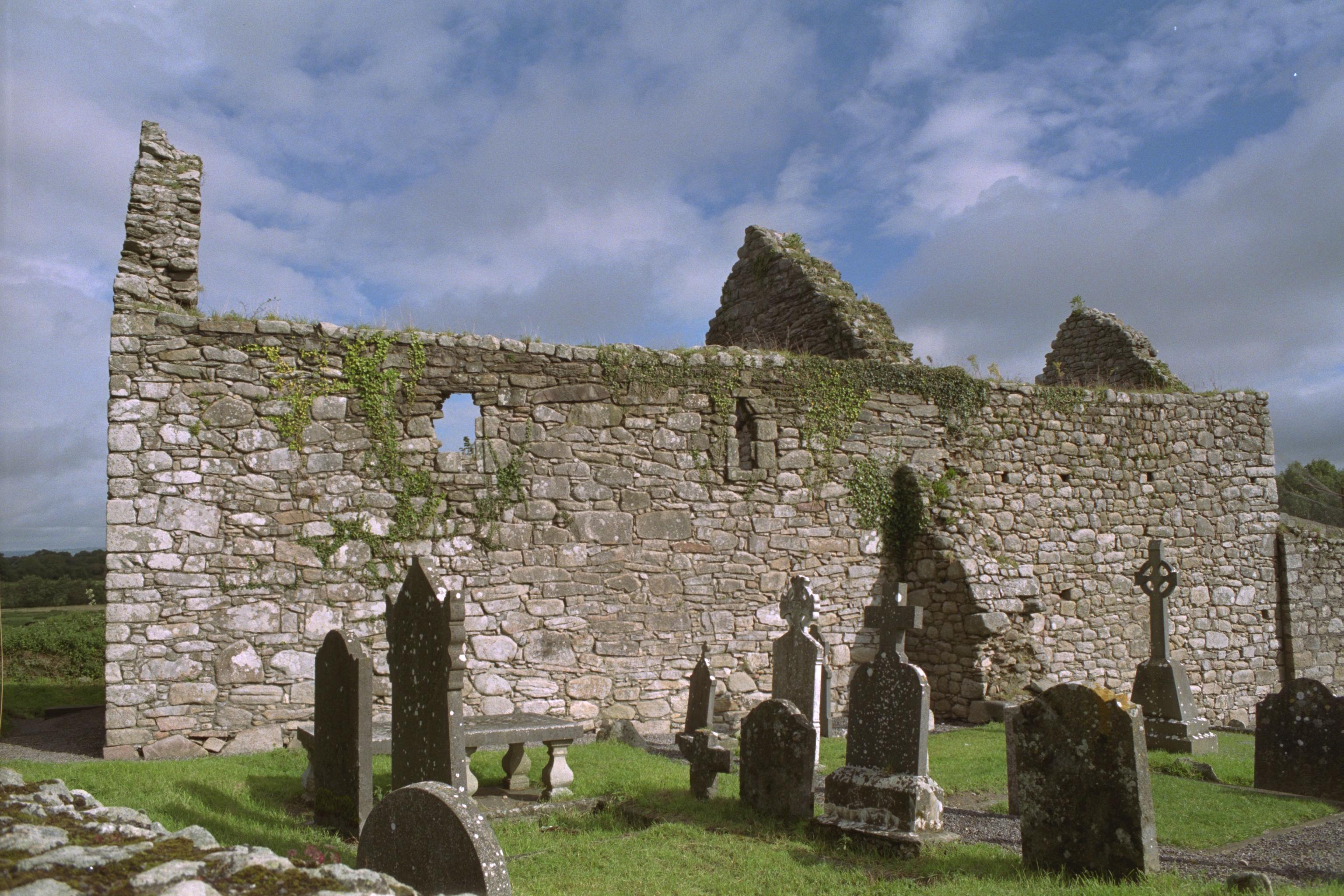 South view of the church.